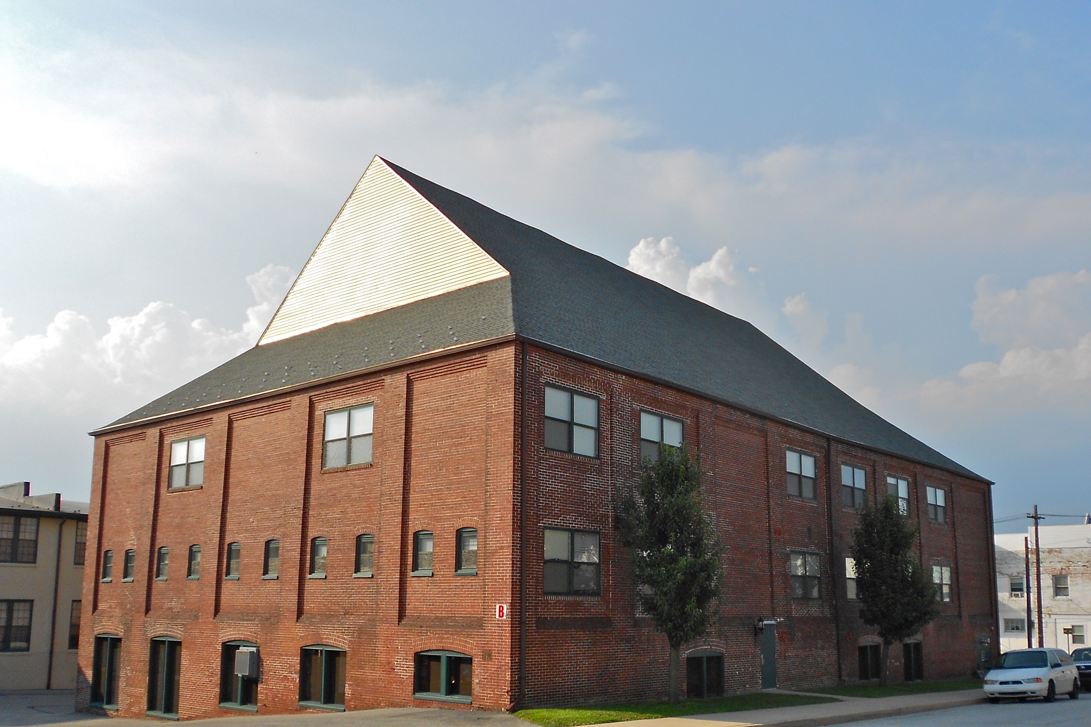 The Opera House located at 121 First Avenue, Red Lion, York County, Pennsylvania. Converted into an apartment building. Note that the Consumers Cigar Box building,on the NRHP, which borders this building on 2 sides, is often given the same address. Part of that building is seen in the lower left hand corner. The Opera House is part of the Red Lion Historic District, also on the NRHP.